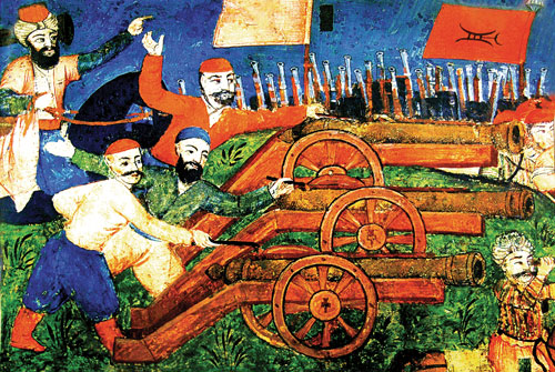 Miniature on the wall of Khan's Palace of Shaki